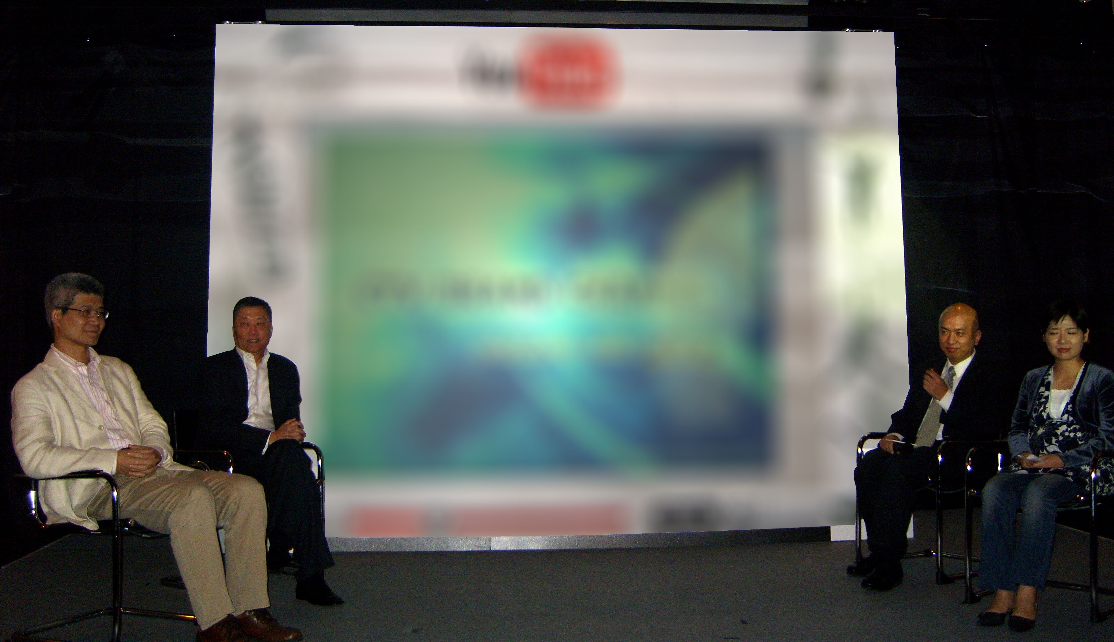 Partner Panel of YouTube Taiwan Launch Press Conference.